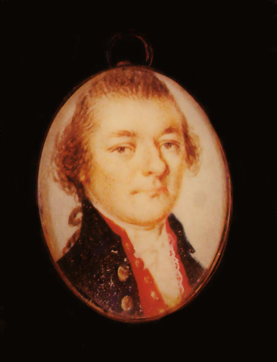 John Page, former governor of Virginia. Image appears to be old portrait of long dead figure. Source URL